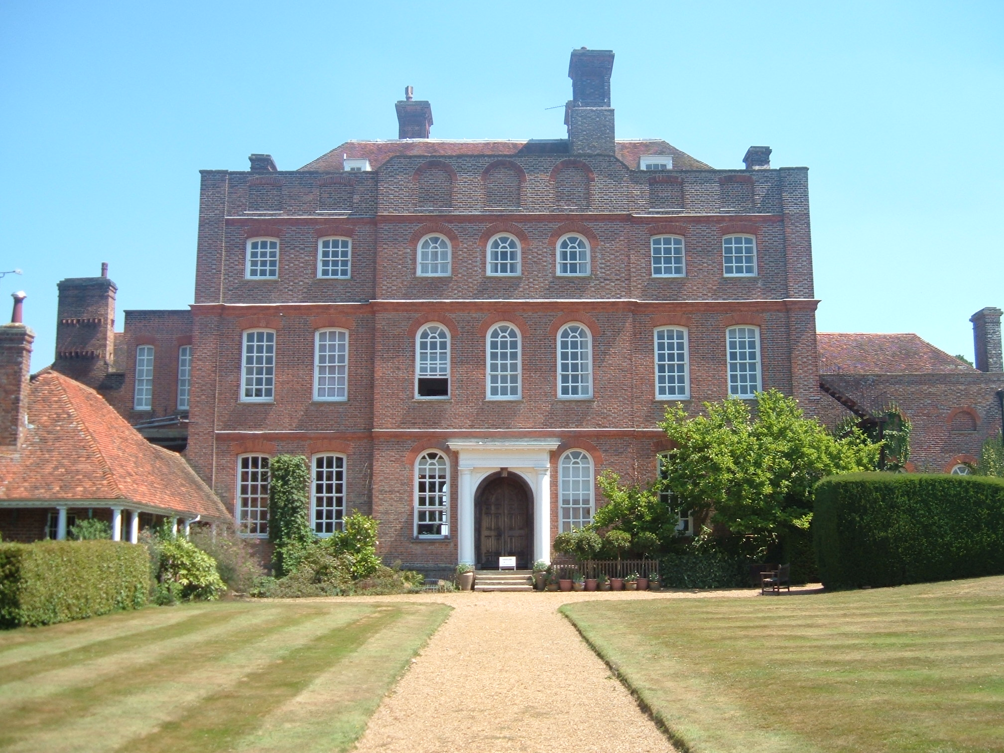 Finchcocks, Goudhurst, Kent. The back of the house.